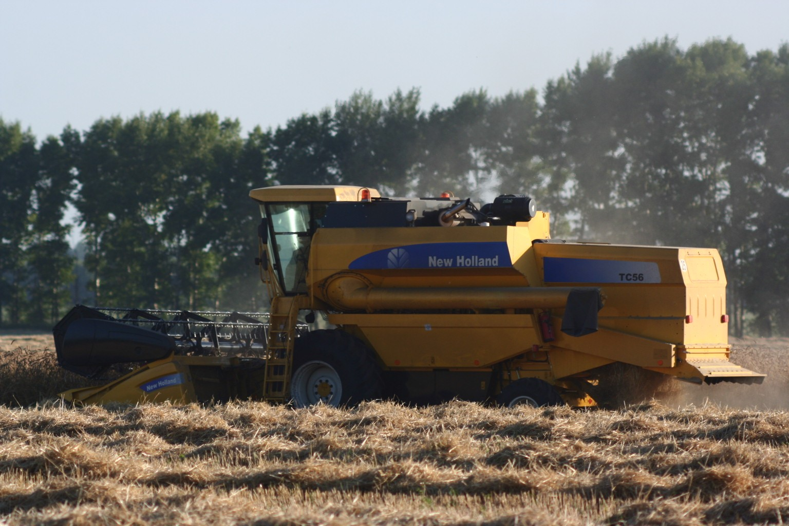 New Holland TC56 Сombine harvester